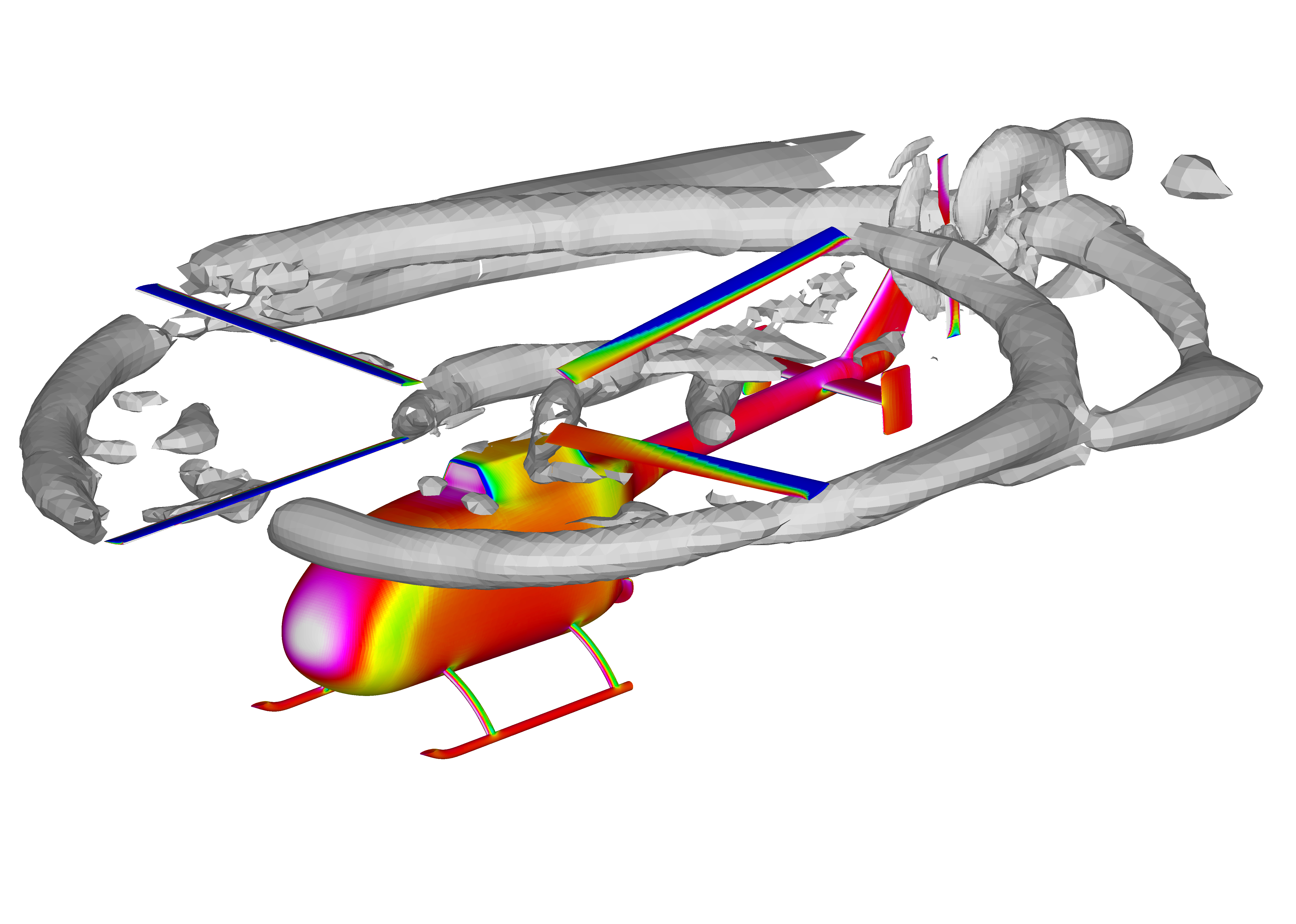 Reduced pressure on the top of the blade draws air upwards; this produces a vortex – the blade tip vortex – that is then directed downwards. When other rotor blades subsequently come into contact with these vortices, the 'chopping' or throbbing noise characteristic of helicopters is produced.